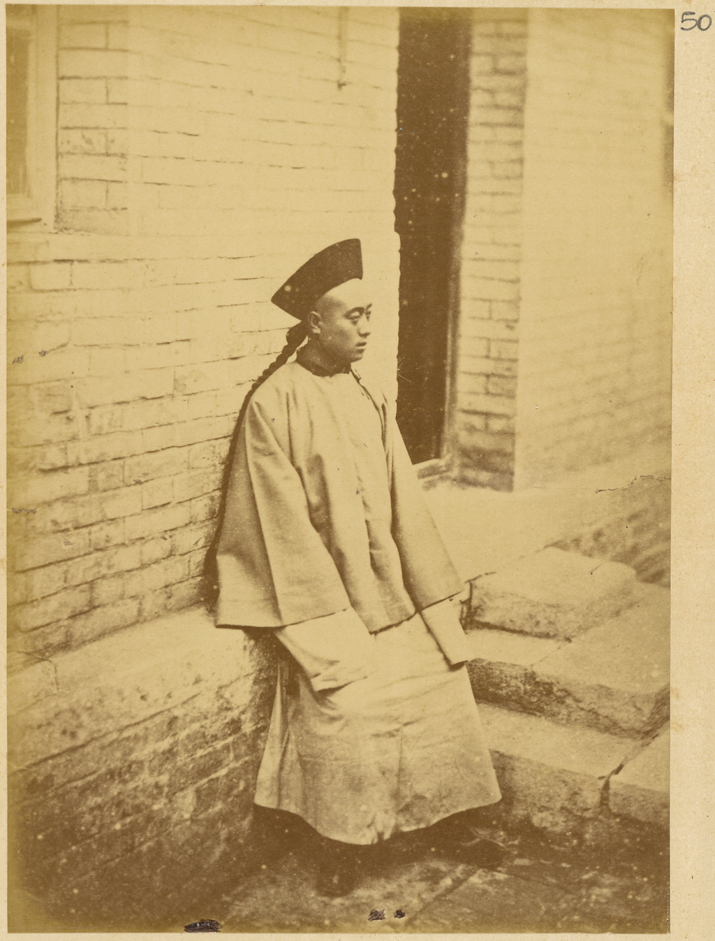 In 1874-75, the Russian government sent a research and trading mission to China to seek out new overland routes to the Chinese market, report on prospects for increased commerce and locations for consulates and factories, and gather information about the Dungan Revolt then raging in parts of western China. Led by Lieutenant Colonel Iulian A. Sosnovskii of the army General Staff, the nine-man mission included a topographer, Captain Matusovskii; a scientific officer, Dr. Pavel Iakovlevich Piasetskii; Chinese and Russian interpreters; three non-commissioned Cossack soldiers; and the mission photographer, Adolf Erazmovich Boiarskii. The mission proceeded from Saint Petersburg to Shanghai via Ulan Bator (Mongolia), Beijing, and Tianjin, and then followed a route along the Yangtze River, along the Great Silk Road through the Hami oasis, to Lake Zaysan, back to Russia. Boiarskii took some 200 photographs, which constitute a unique resource for the study of China in this period. Most of the photographs are included in this album, which later became part of the Thereza Christina Maria Collection assembled by Emperor Pedro II of Brazil and given by him to the National Library of Brazil. Chinese; Memory of the World; Men; Portrait photographs